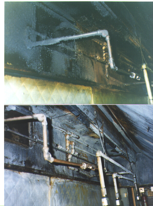 Kitchen Exhaust Hood interior, before and after cleaning, restaurant in North Bay, Ontario